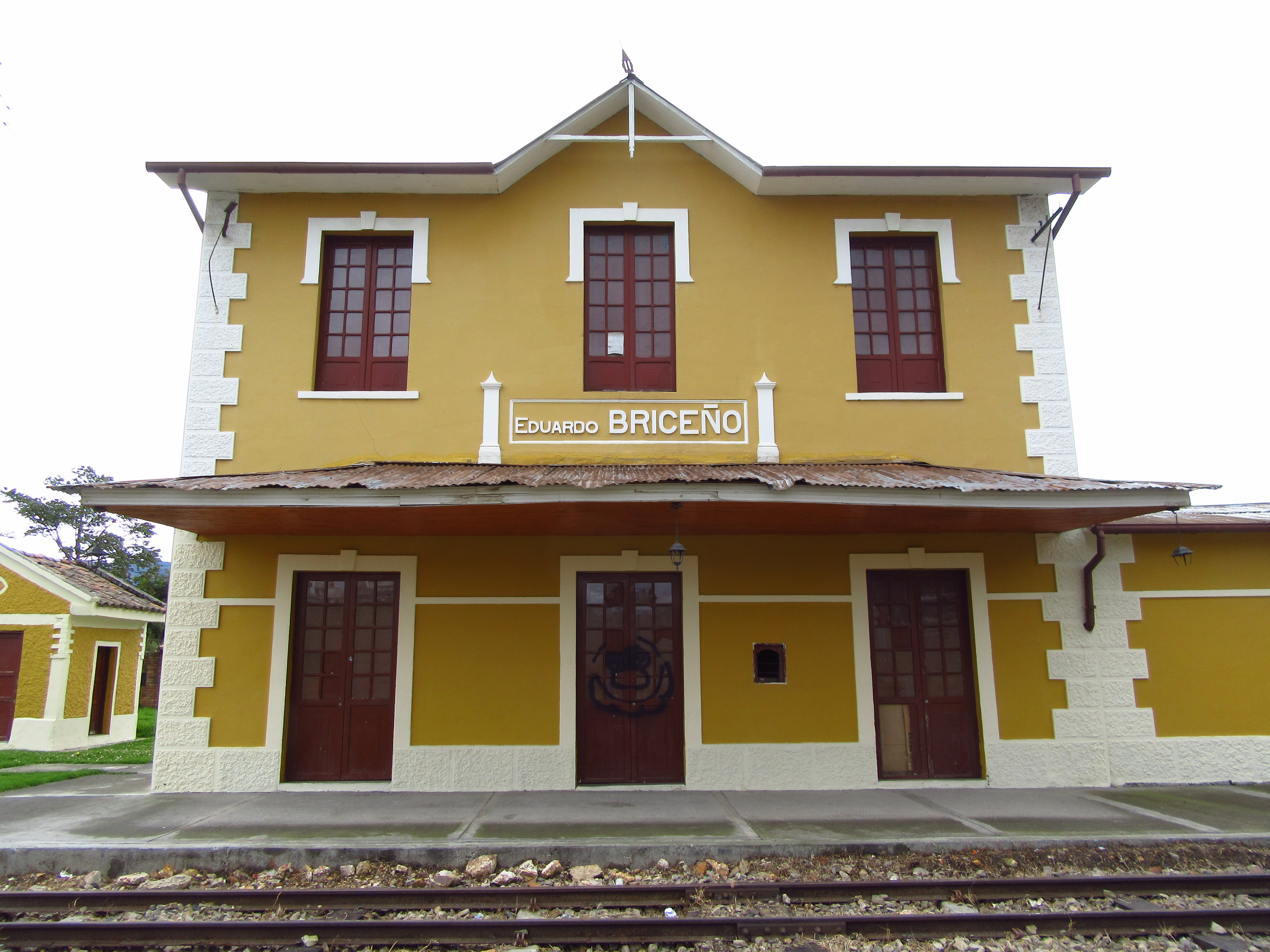 Estación ferroviaria Briceño, Sopó- Colombia